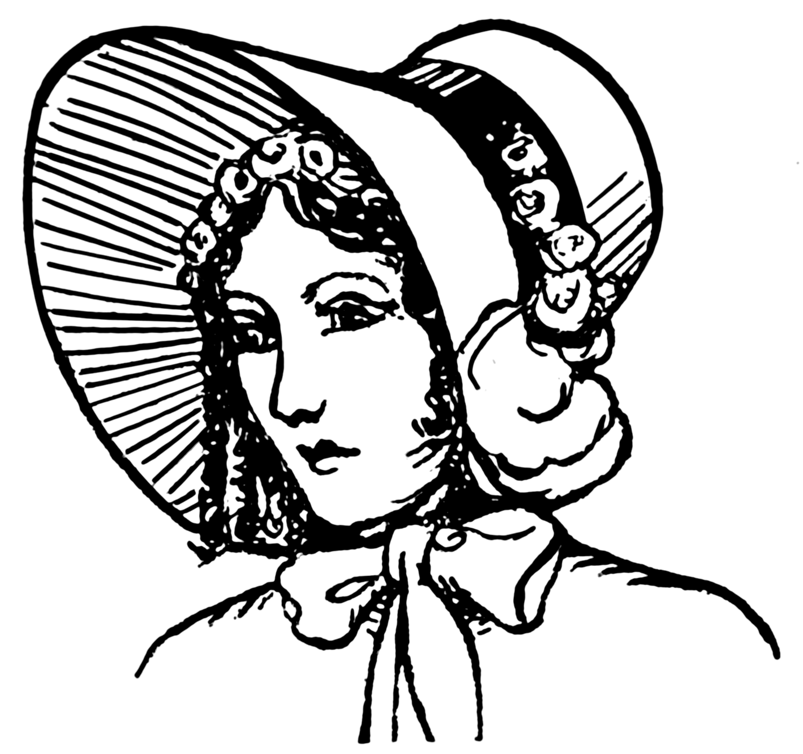 Line art drawing of poke.